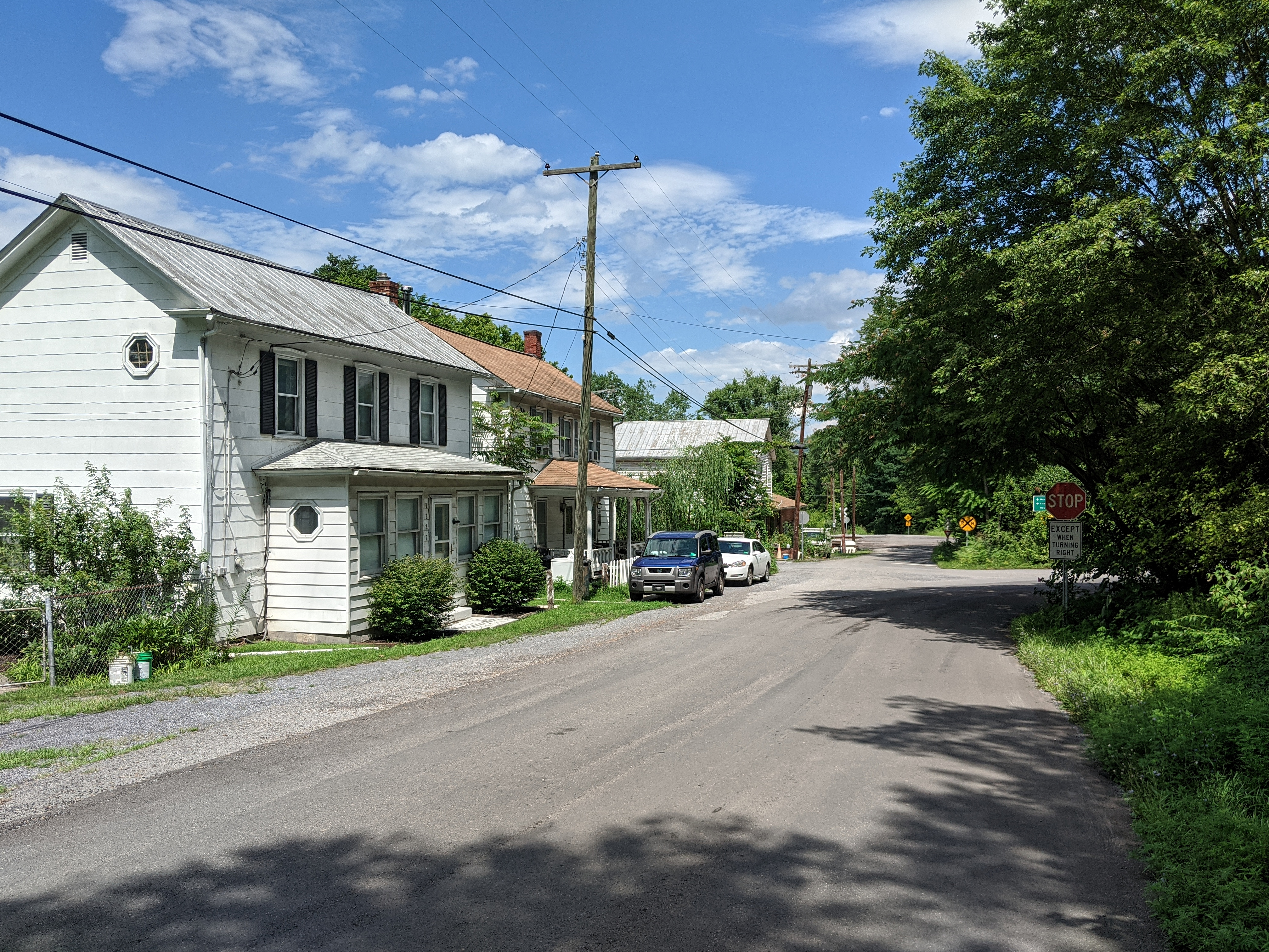 Houses on Householder Road near the intersection with Maryland Lane and Chessie Lane in Cherry Run, Morgan County, West Virginia.